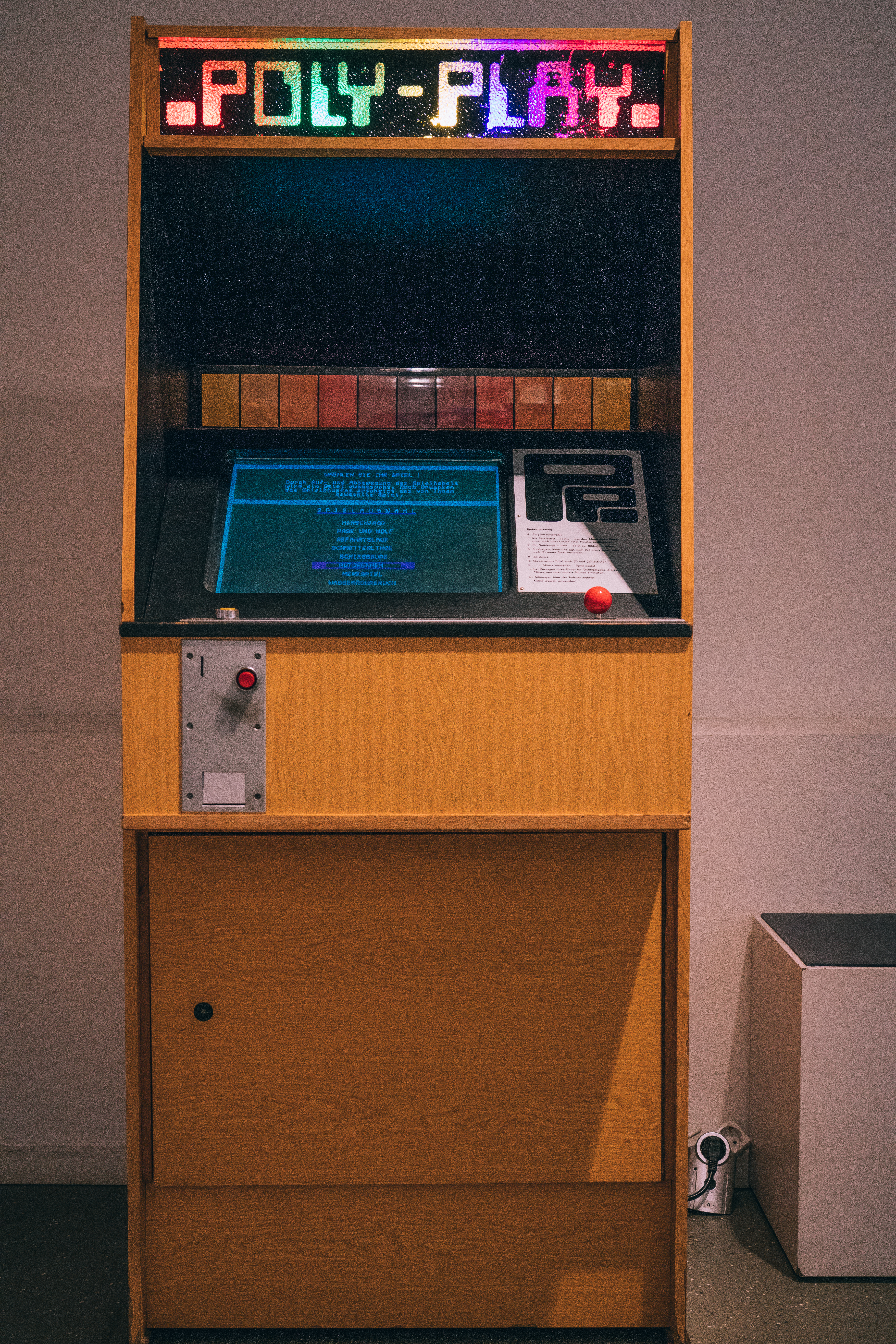 Polyplay